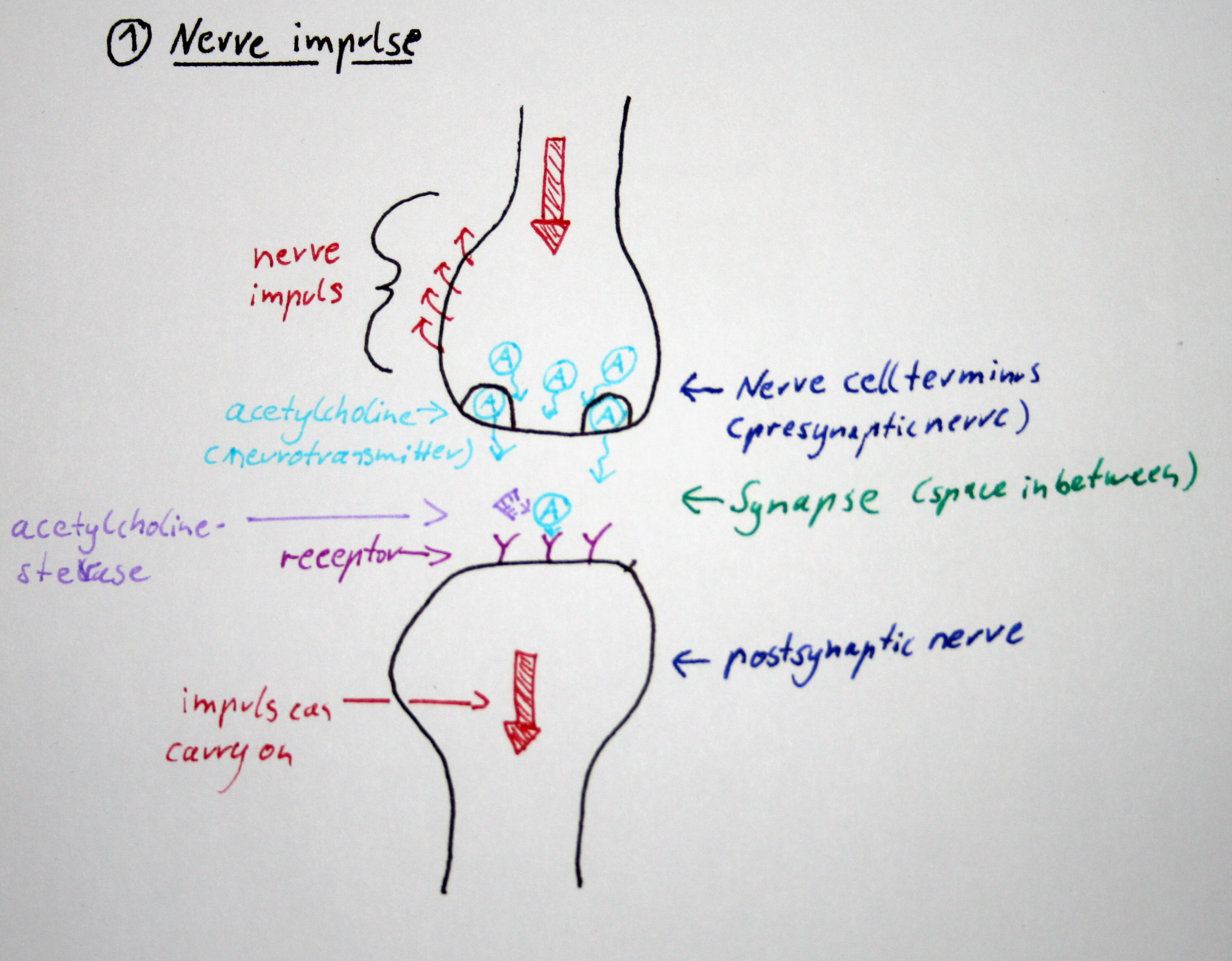 Nerve impulse.JPG